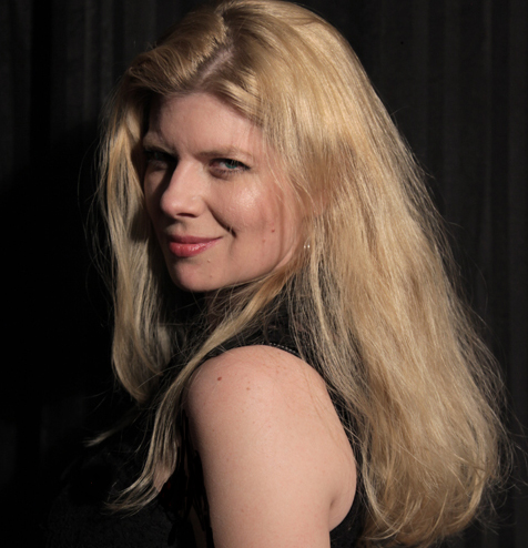 This is an image of American director Izzy Lee, dated 2014.